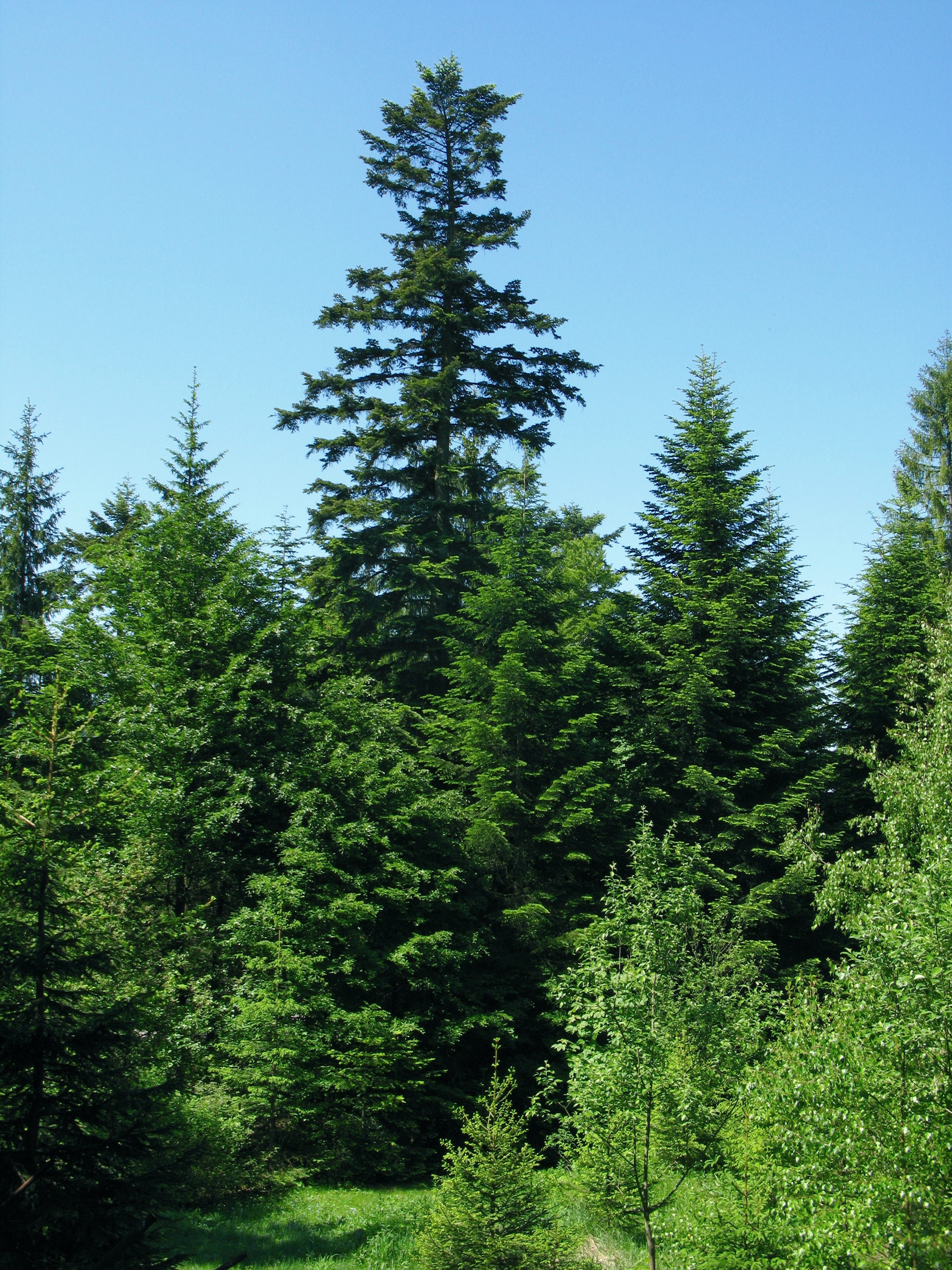 Abies alba in Skalité (Slovakia) near Zwardoń (Poland)